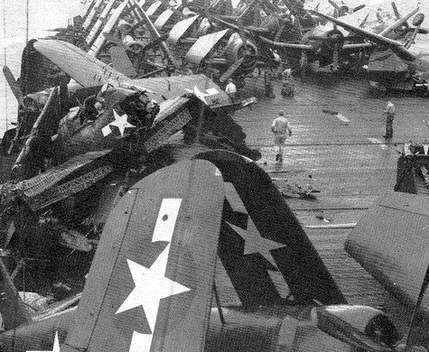 Wrecked aircraft on deck of the U.S. Navy escort carrier USS Attu (CVE-102) after passing through a typhoon on the morning of 5 June 1945.